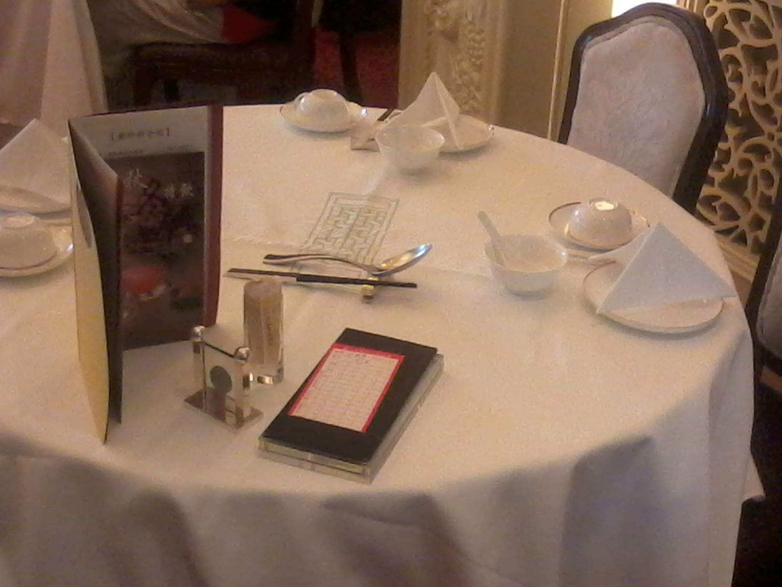 Chinese restaurant in City Hall lower block, Edinburgh Place, Central, Hong Kong